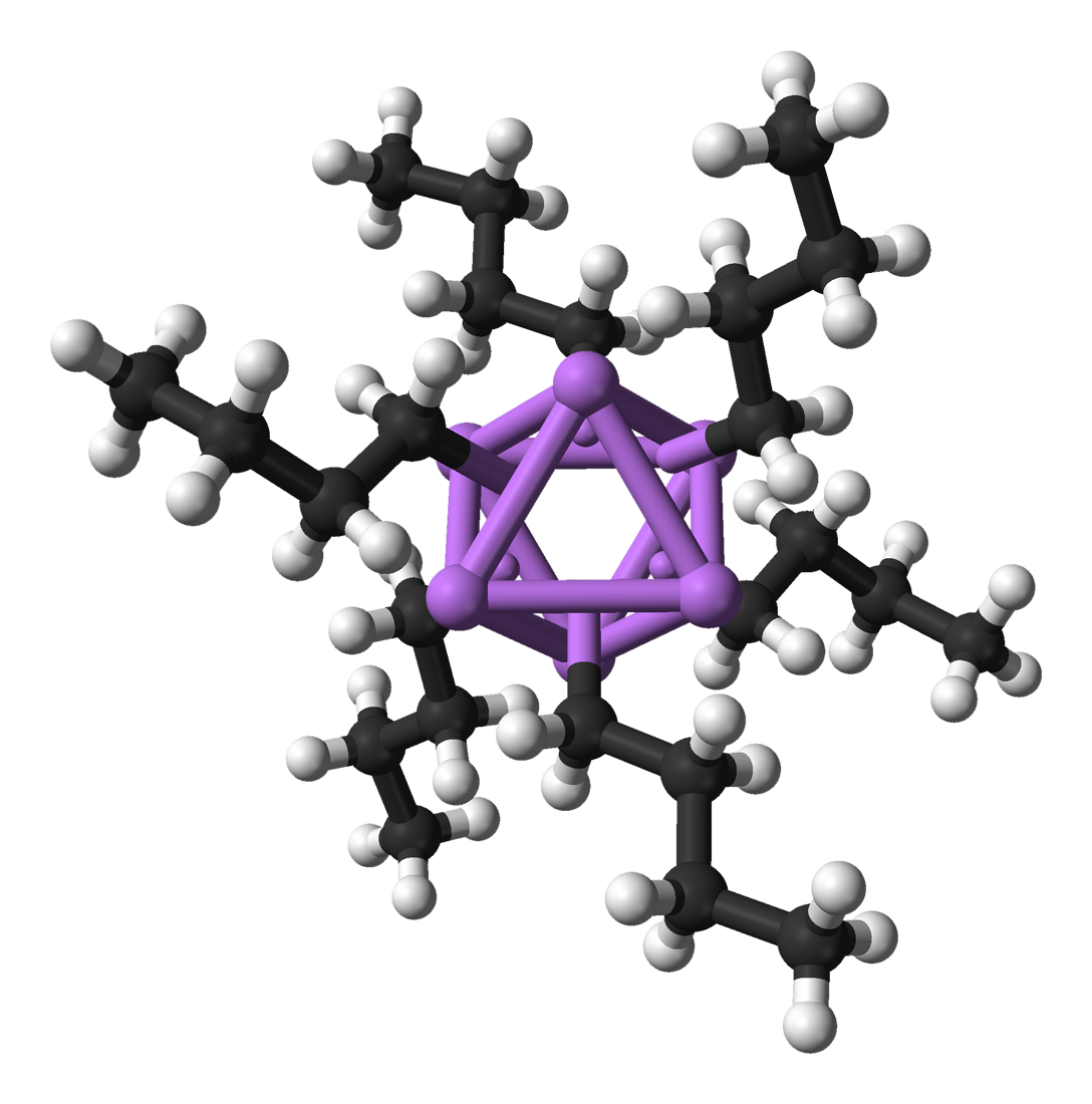 Ball-and-stick model of the hexamer of butyllithium, (C4H9Li)6. X-ray crystallographic data from T. Kottke, D. Stalke (September 1993). "Structures of Classical Reagents in Chemical Synthesis: (nBuLi)6, (tBuLi)4, and the Metastable (tBuLi · Et2O)2". Angew. Chem., Int. Ed. Engl. 32 (4): 580-582.